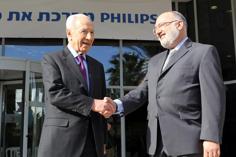 Guido Pardo-Roques, next to Mr. Shimon Peres, former President of the State of Israel and Peace Nobel Laureate, during a visit at Philips' site located at the Advanced Technology Center in Haifa.